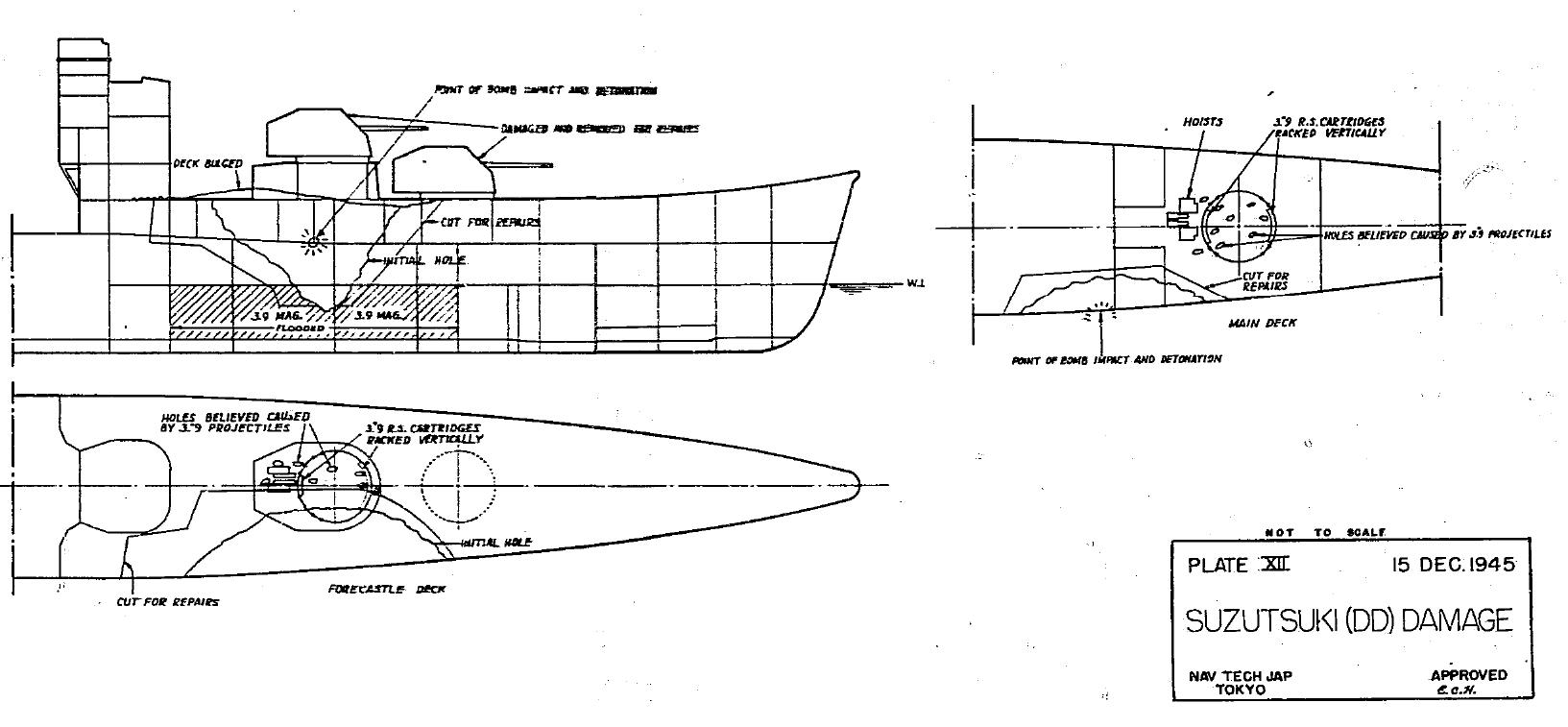 Schema of damaged bow of japanese destroyer Suzutsuki after April 7, 1945 US Navy aircraft attack according to Reports of the U. S. Naval Technical Mission to Japan 1945 – 1946